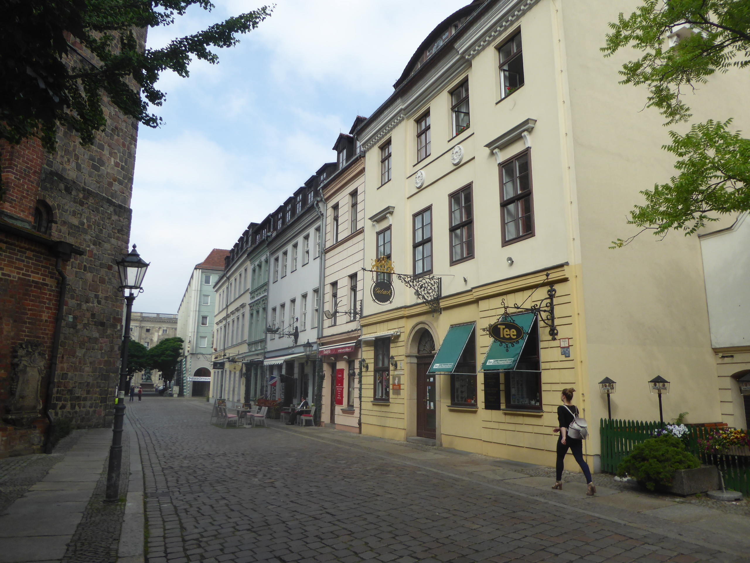 The street Propststraße in the neighborhood Nikolaiviertel in Berlin.